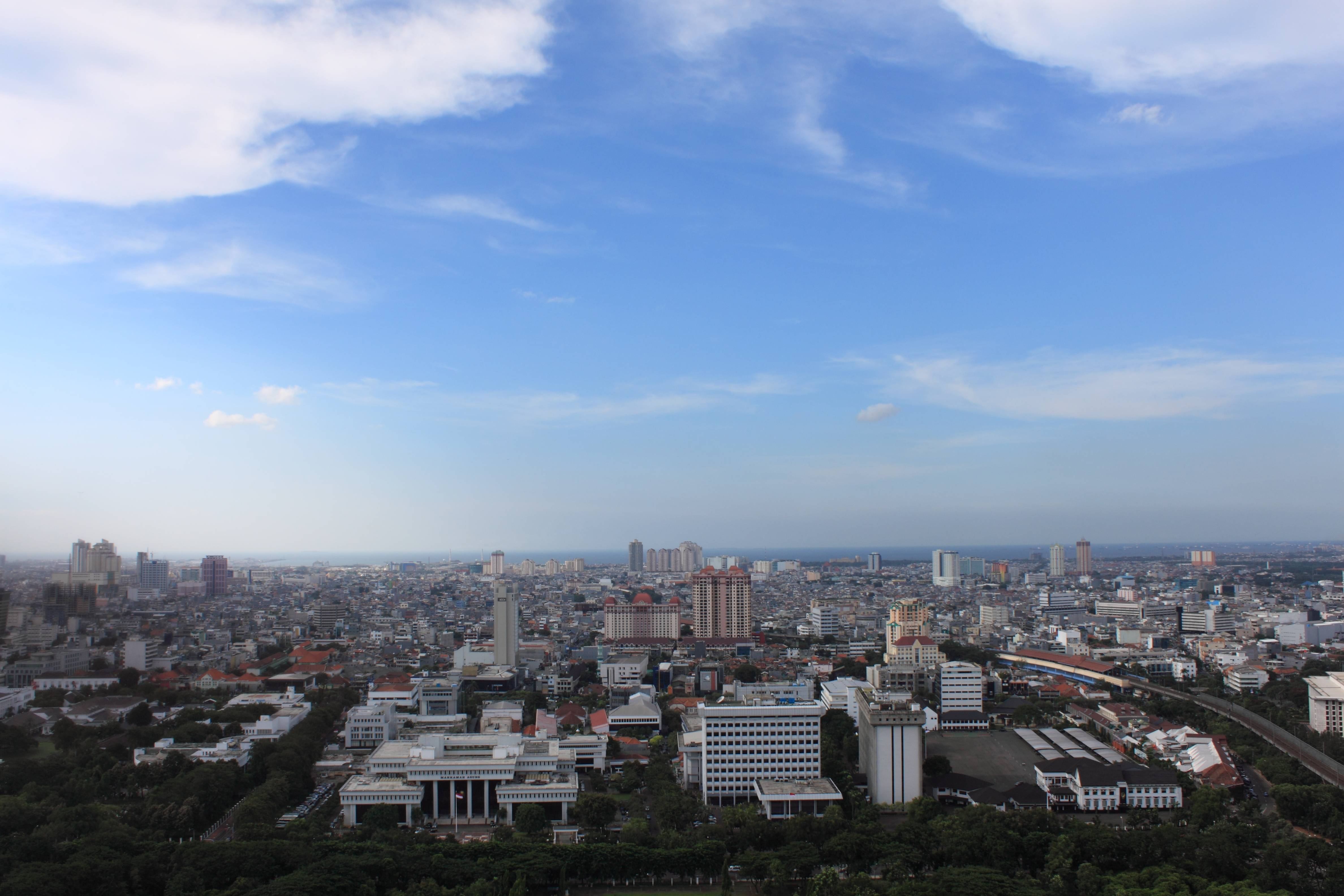 View of the north side of Jakarta, Indonesia taken from the observation deck at the top of Monumen Nasional.